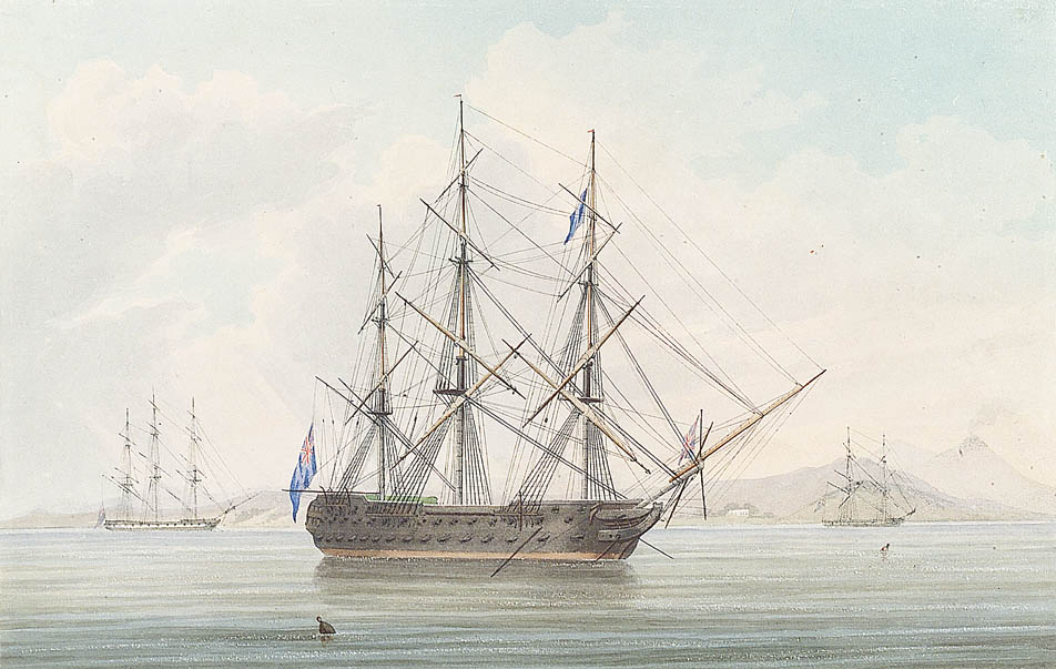 HMS Rochefort during the interment of Sir Thos. Fremantle 22nd Dec 1829 at Baia Bay NaplesHand-coloured. HMS Rochefort during the interment of Sir Thos. Fremantle 22nd Dec 1829 at Baia Bay Naples